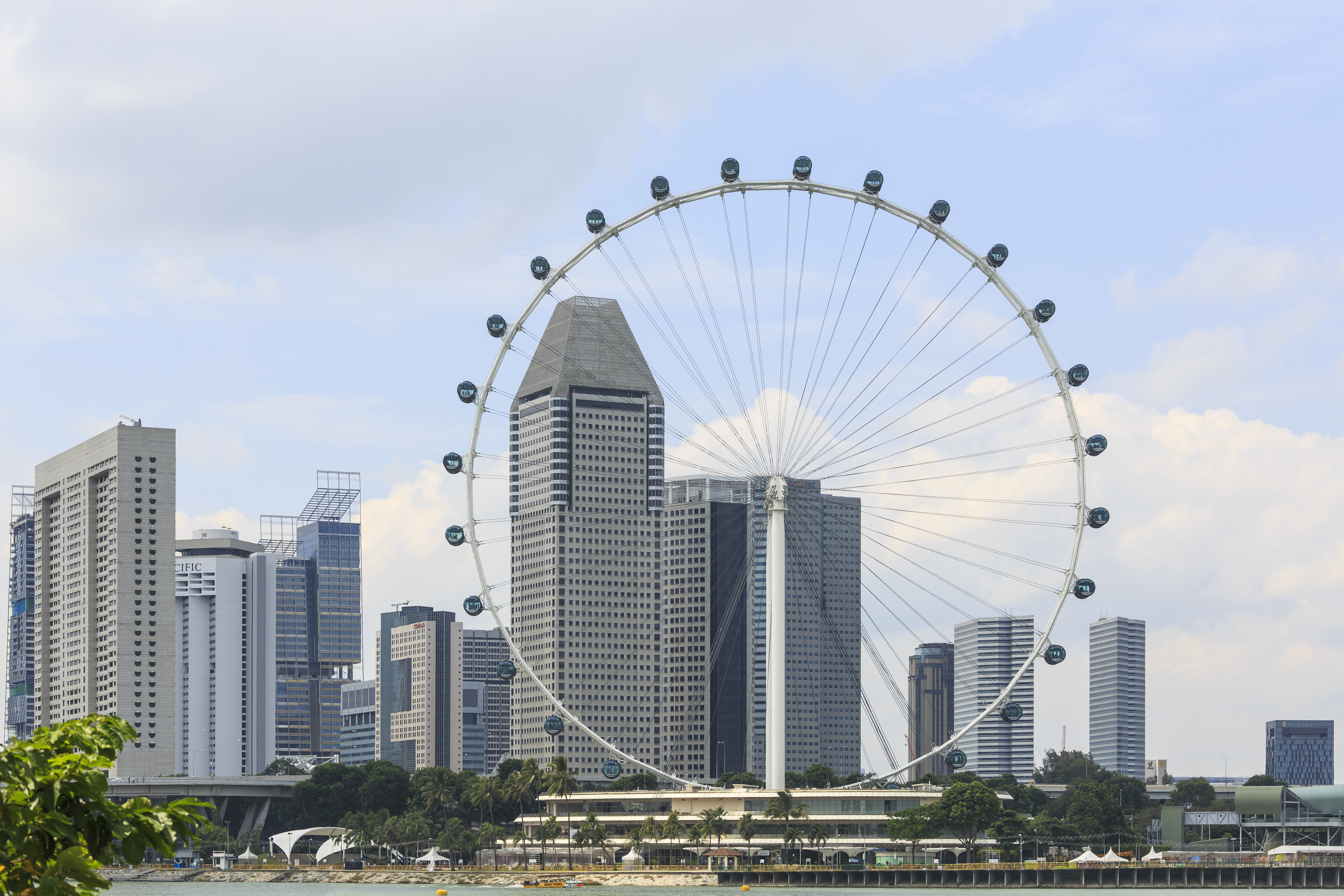 Singapore: The Singapore Flyer ferris wheeel in front of singapore skyline with Ritz-Carlton Millenia, Pan-Pacific, Conrad Centennial, Millenia Tower, Centennial Tower